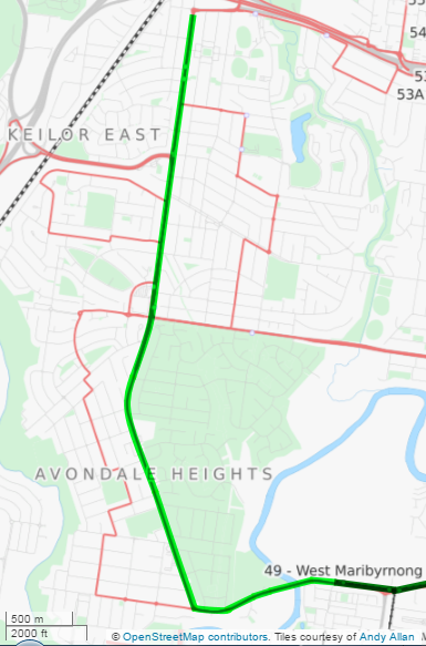 A map of the proposed extension to the Route 57 tram in Melbourne. Dark green (on the left) shows the current route, light green shows the proposed route, red lines show bus routes. Created with OpenStreetMap and .